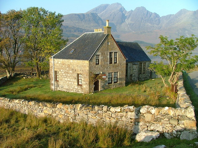 Torrin Outdoor Centre Formerly Torrin School.